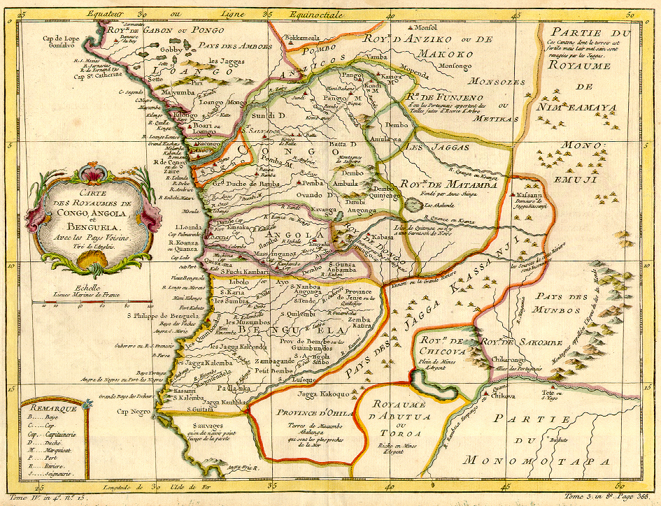 1754 Jacques Bellin (1703-1772) CARTE DES ROYAUMES DE CONGO ANGOLA et BENGUELA Avec les Pays Voisins. from Histoire Generale Des Voyages of A.F. Prevost d'Exiles. 23.4 X 31 cm. On sheet 25 X 38.5 cm. Color, Paris. {Originally folded onto small book pocket. "Tome IV.No.15"} AMD8239